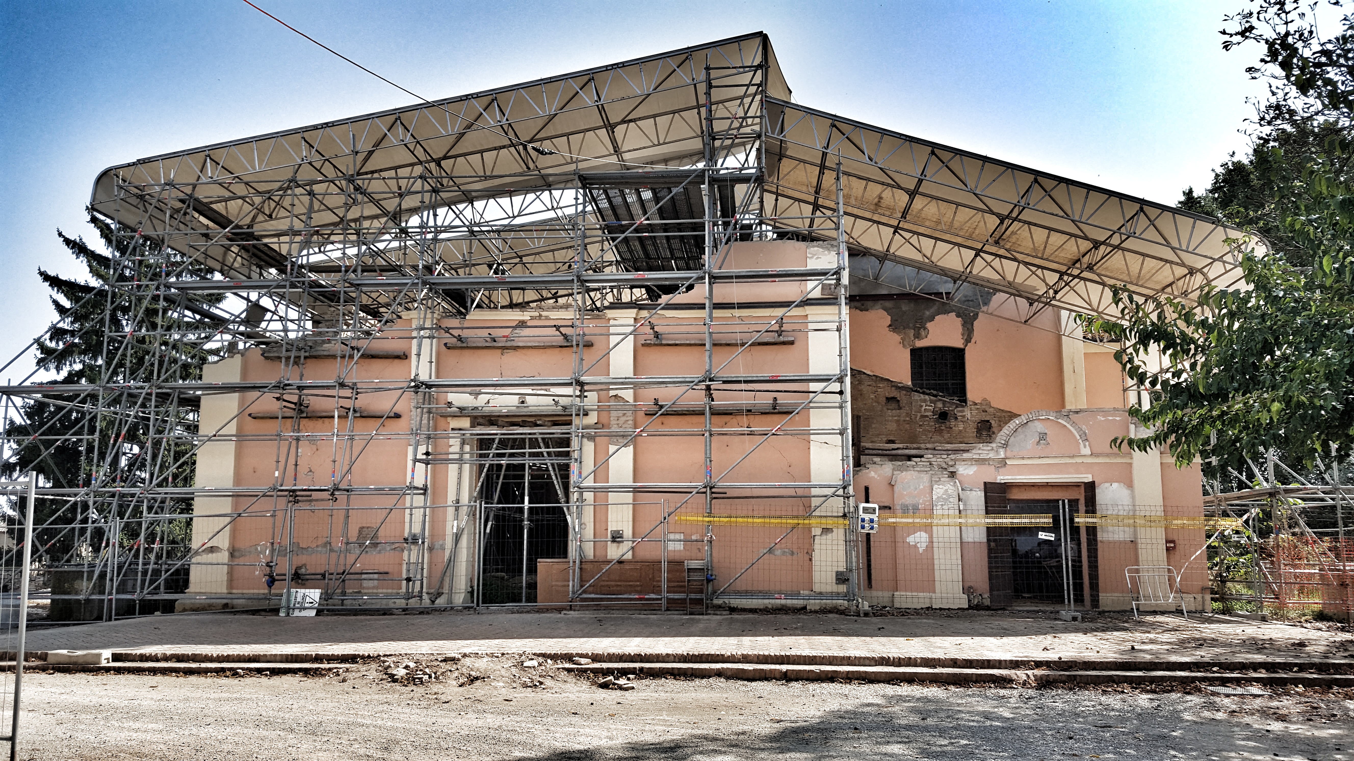 This is a photo of a monument which is part of cultural heritage of Italy.